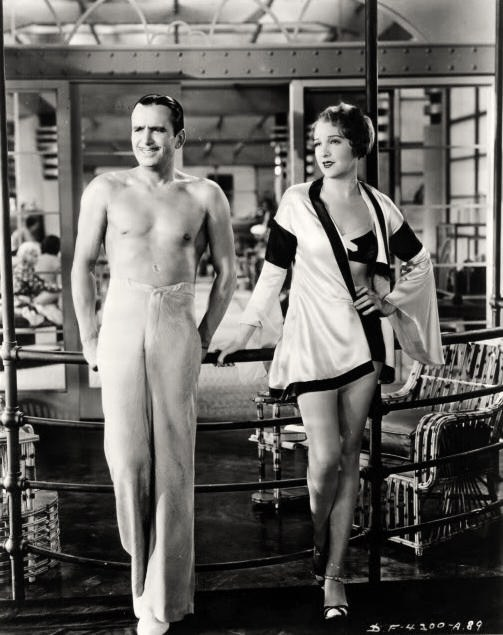 Douglas Fairbanks and Bebe Daniels in Reaching for the Moon - publicity still (cropped)